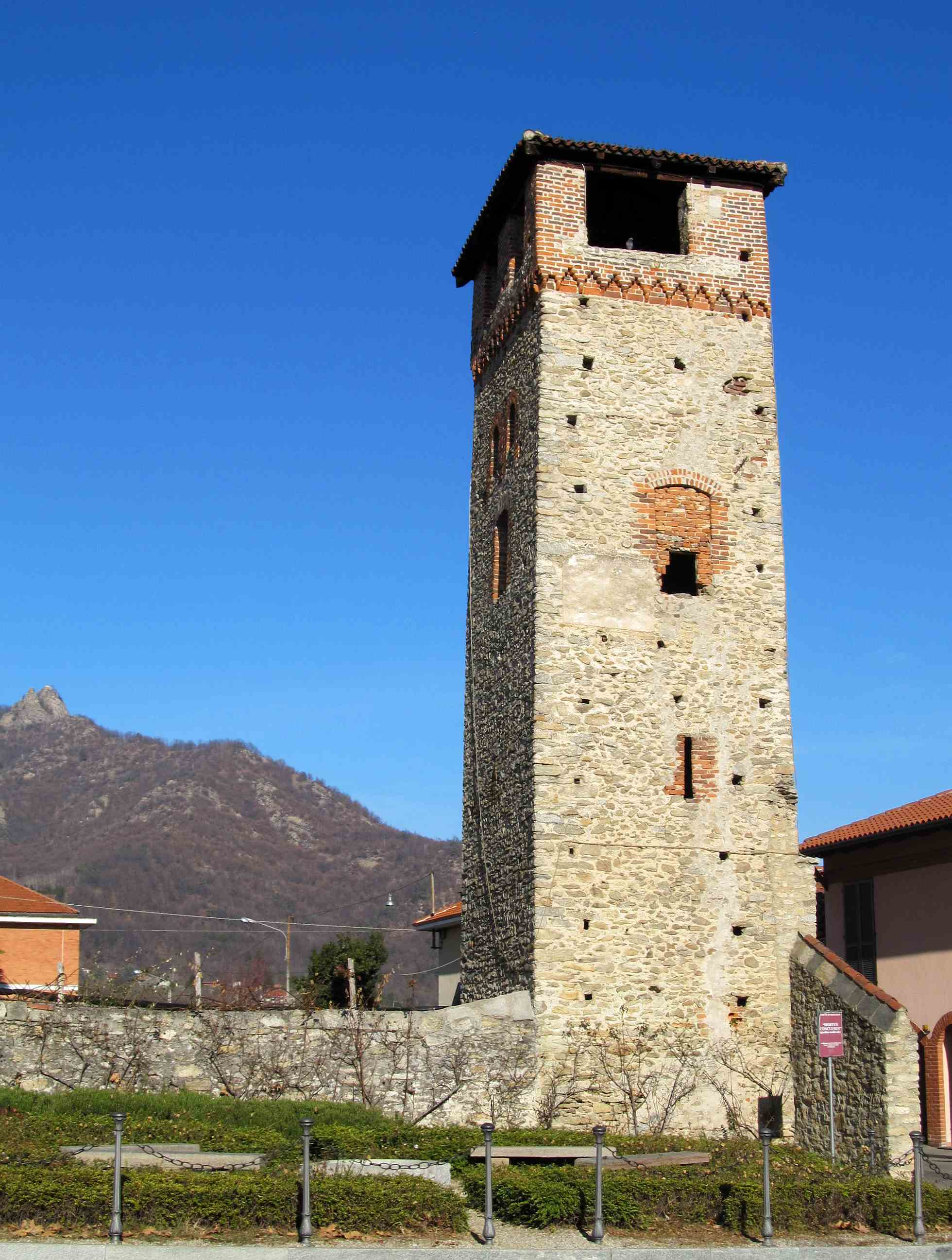 Frossasco (TO, Italy): middel ages tower, in the background Rocca Due Denti